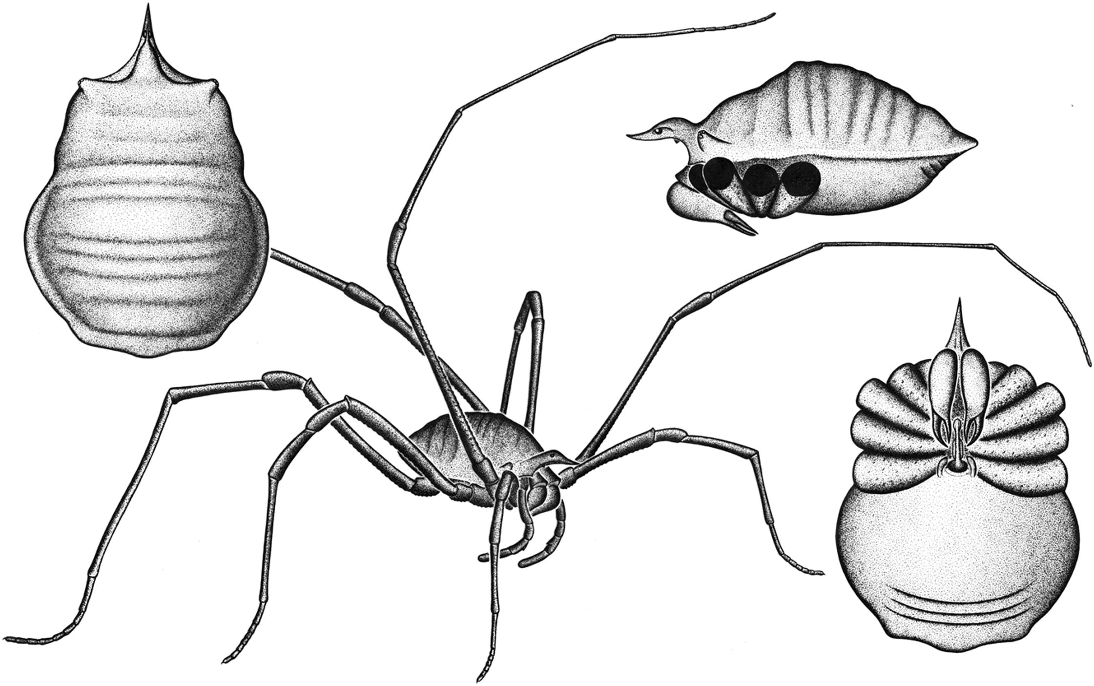 An Idealized Reconstruction of Hastocularis argus in Life on the Basis of the MicroCT Models Shown in dorsal, lateral, ventral, and anterolateral aspect.